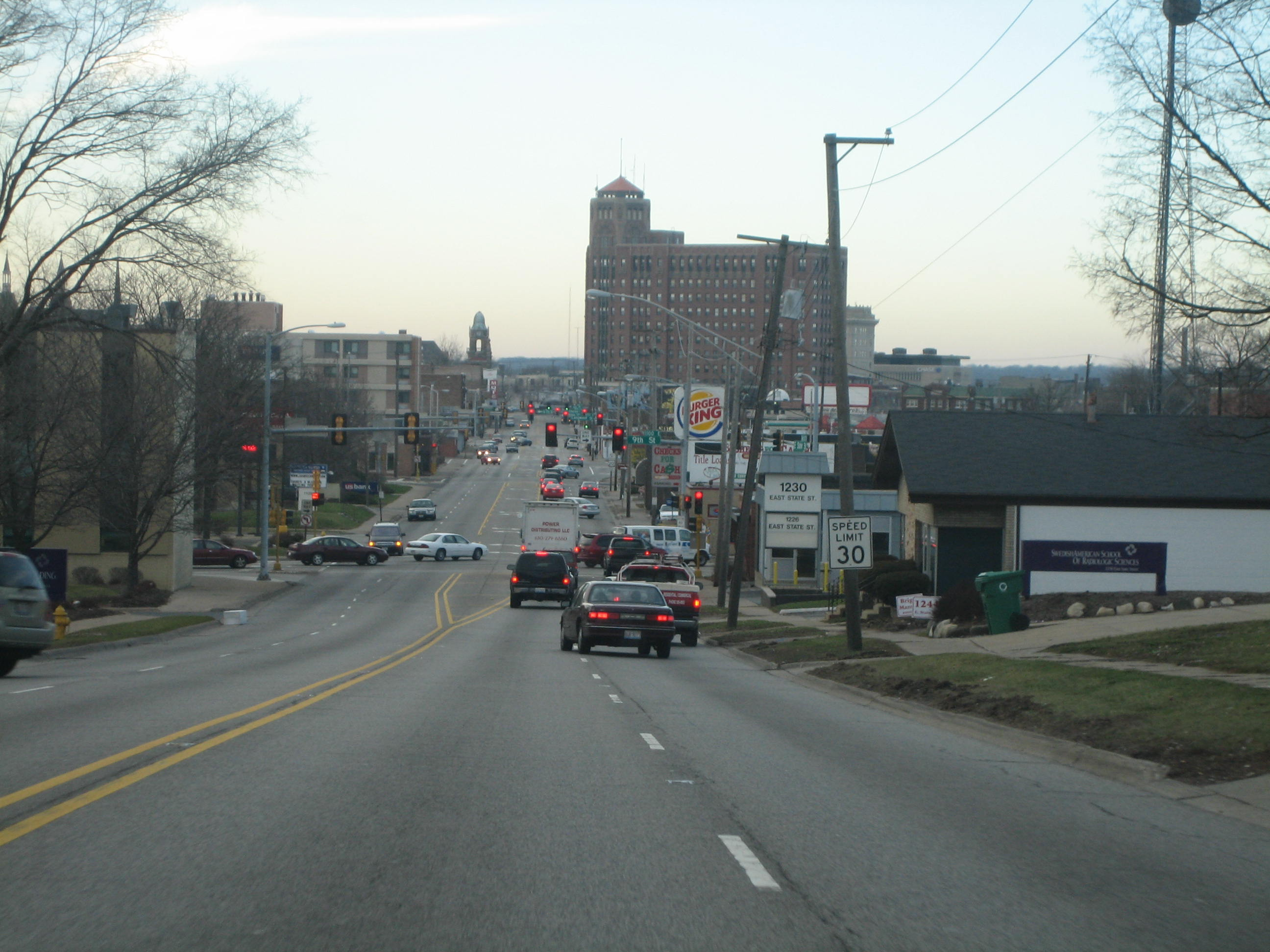 Downtown Rockford, viewed from State Street.